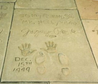 Feet- and handprints of Gregory Peck in the Grauman's Chinese Theatre in Hollywood